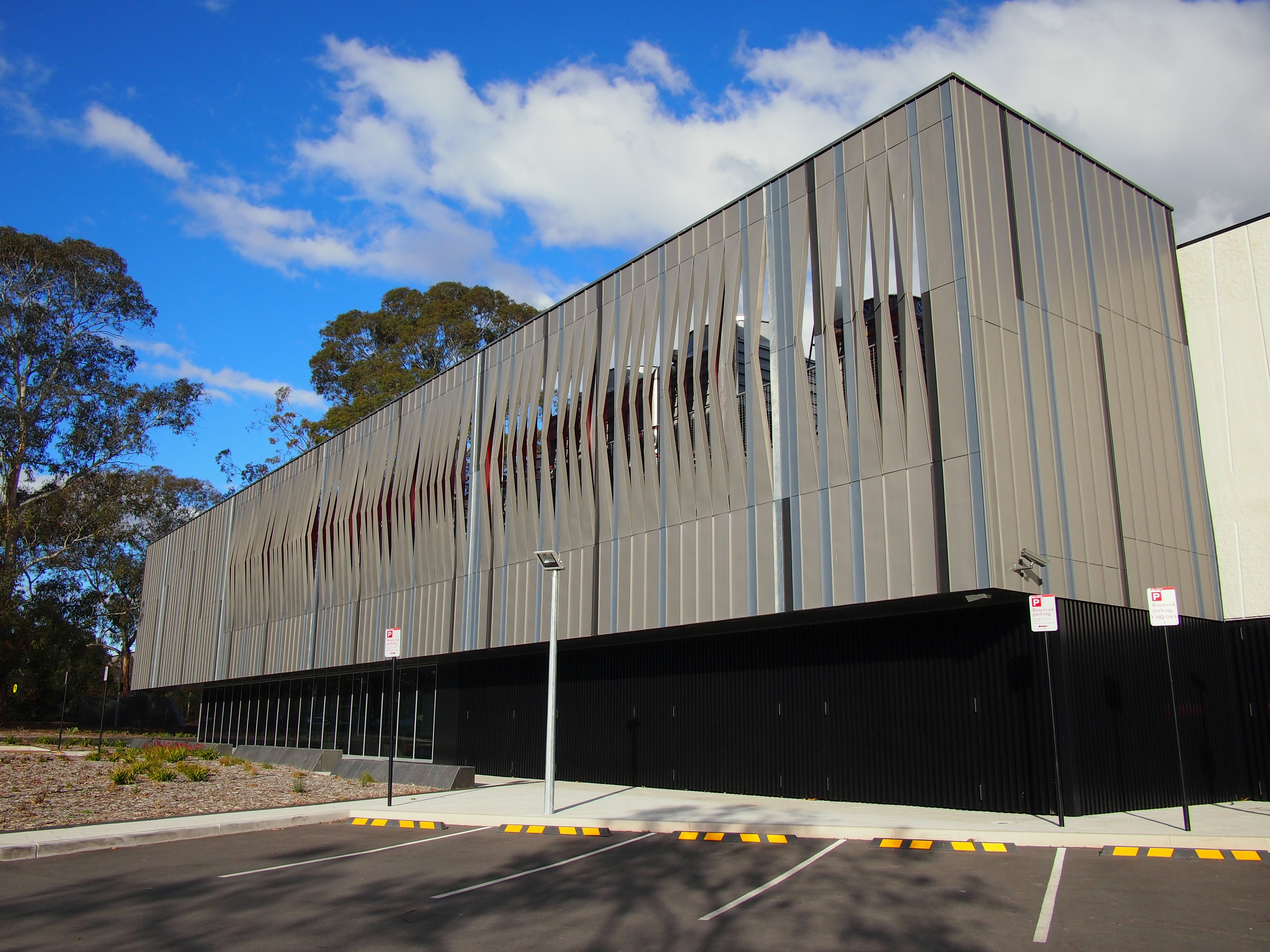 The north face of the National Computational Infrastructure building at the ANU